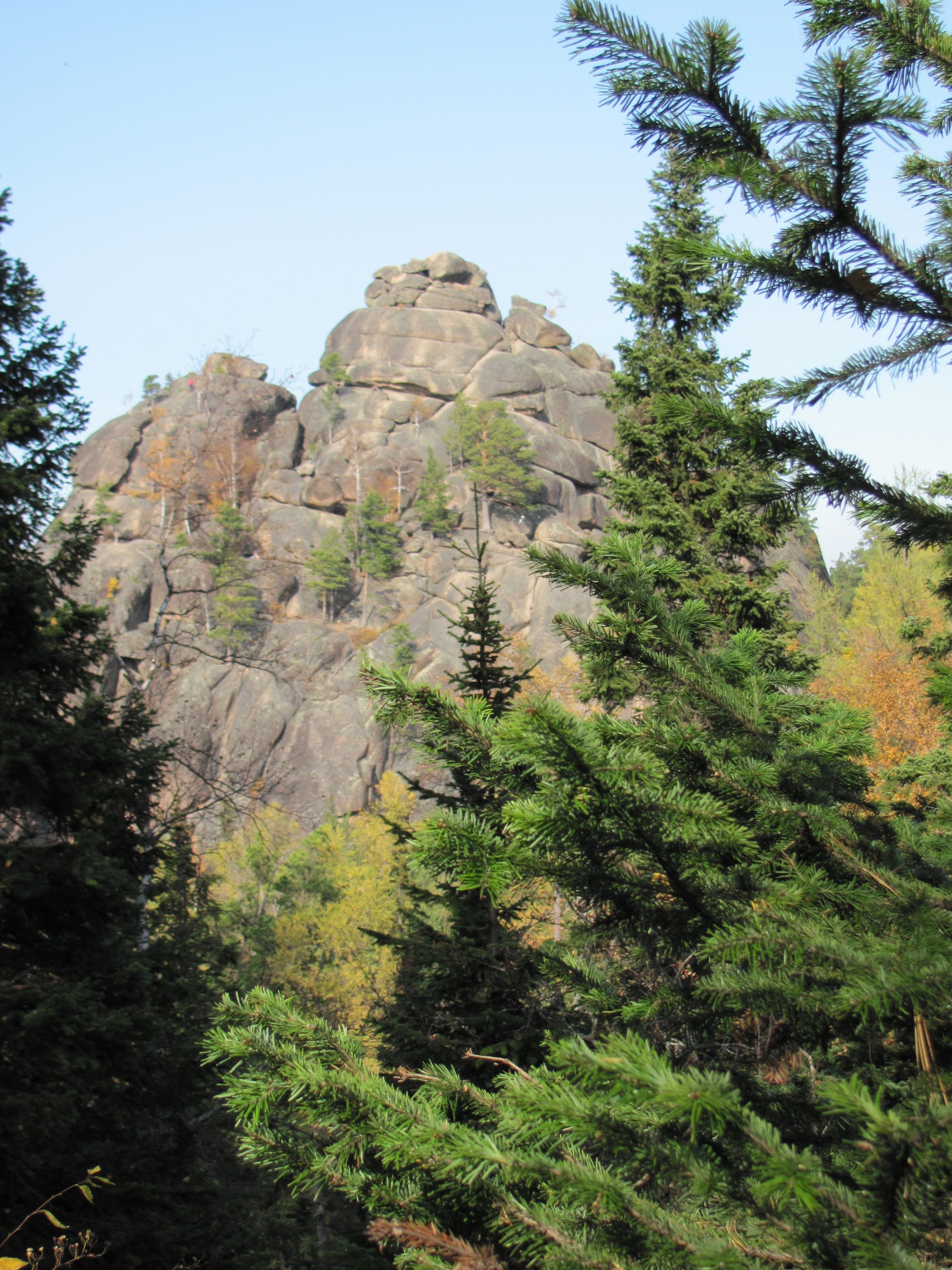 Rock "1 Stolb" in Stolby Nature Reserve, Krasnoyarsk, Russia. Abies sibirica trees in foreground